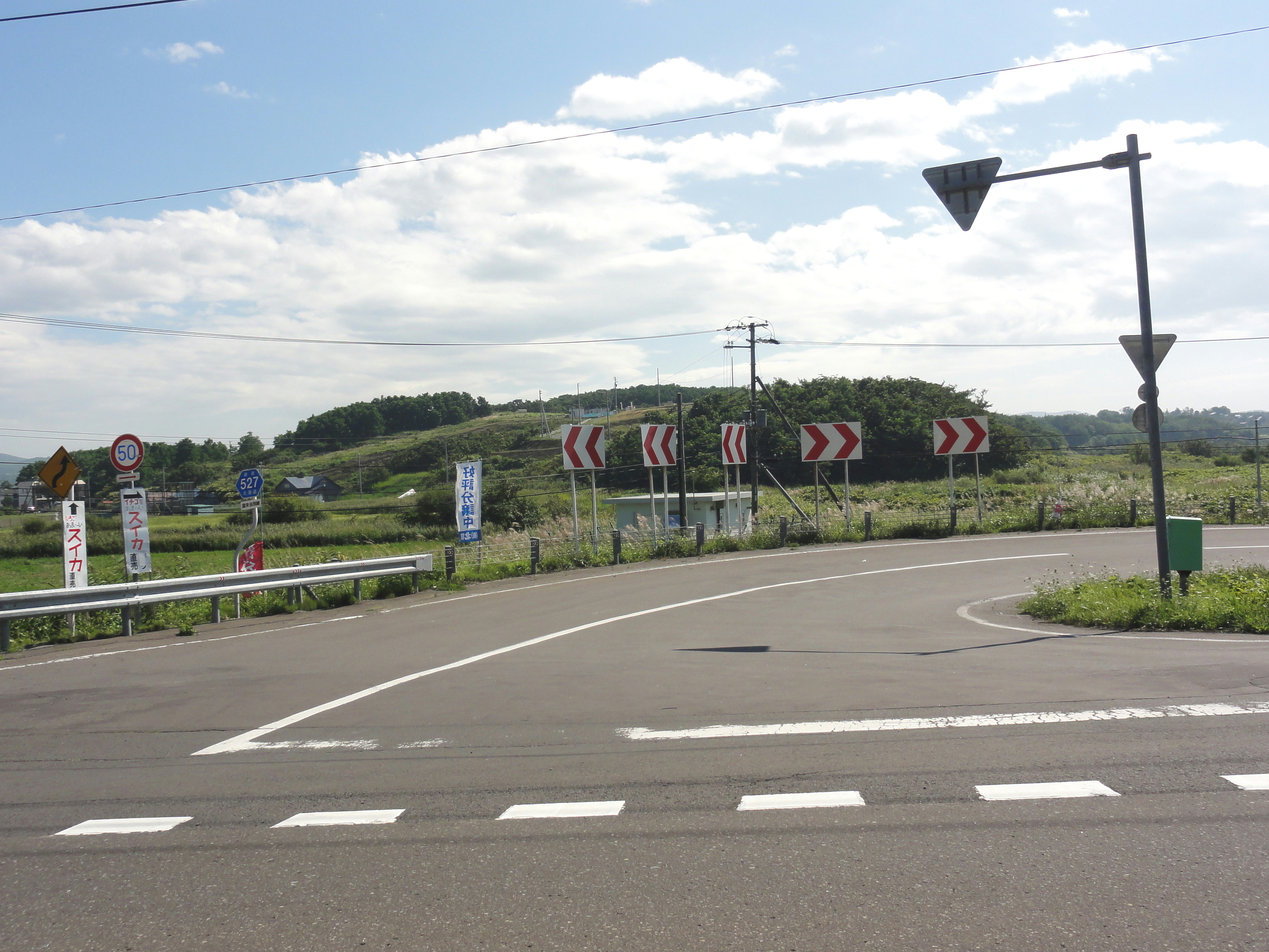 Hokkaido Pref Route 527 (Ishikari, Hokkaidō)